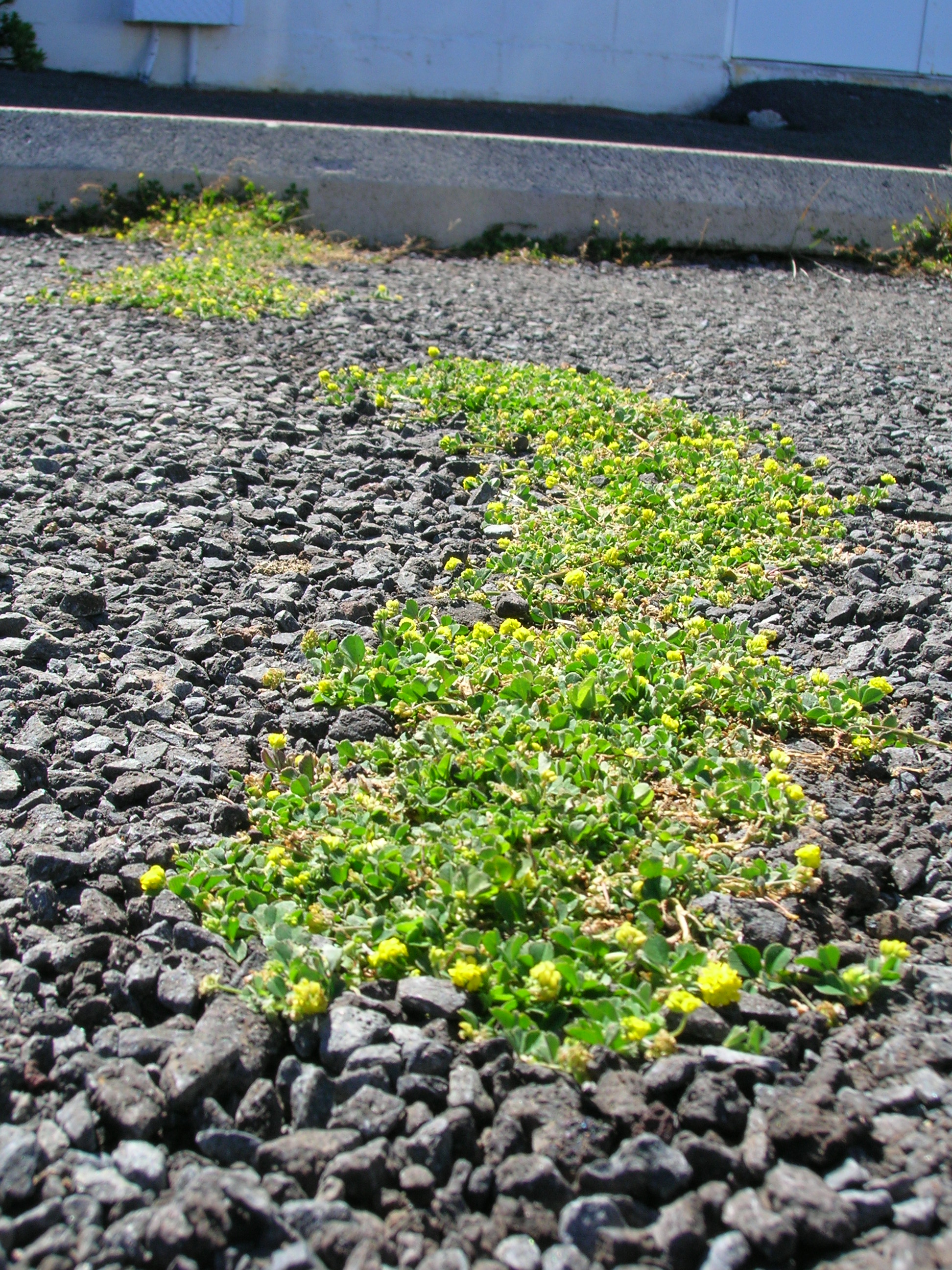 Medicago lupulina (habit and flowers). Location: Maui, Science City